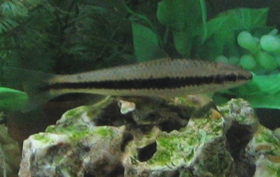 Siamese algae eater Crossocheilus siamensis.